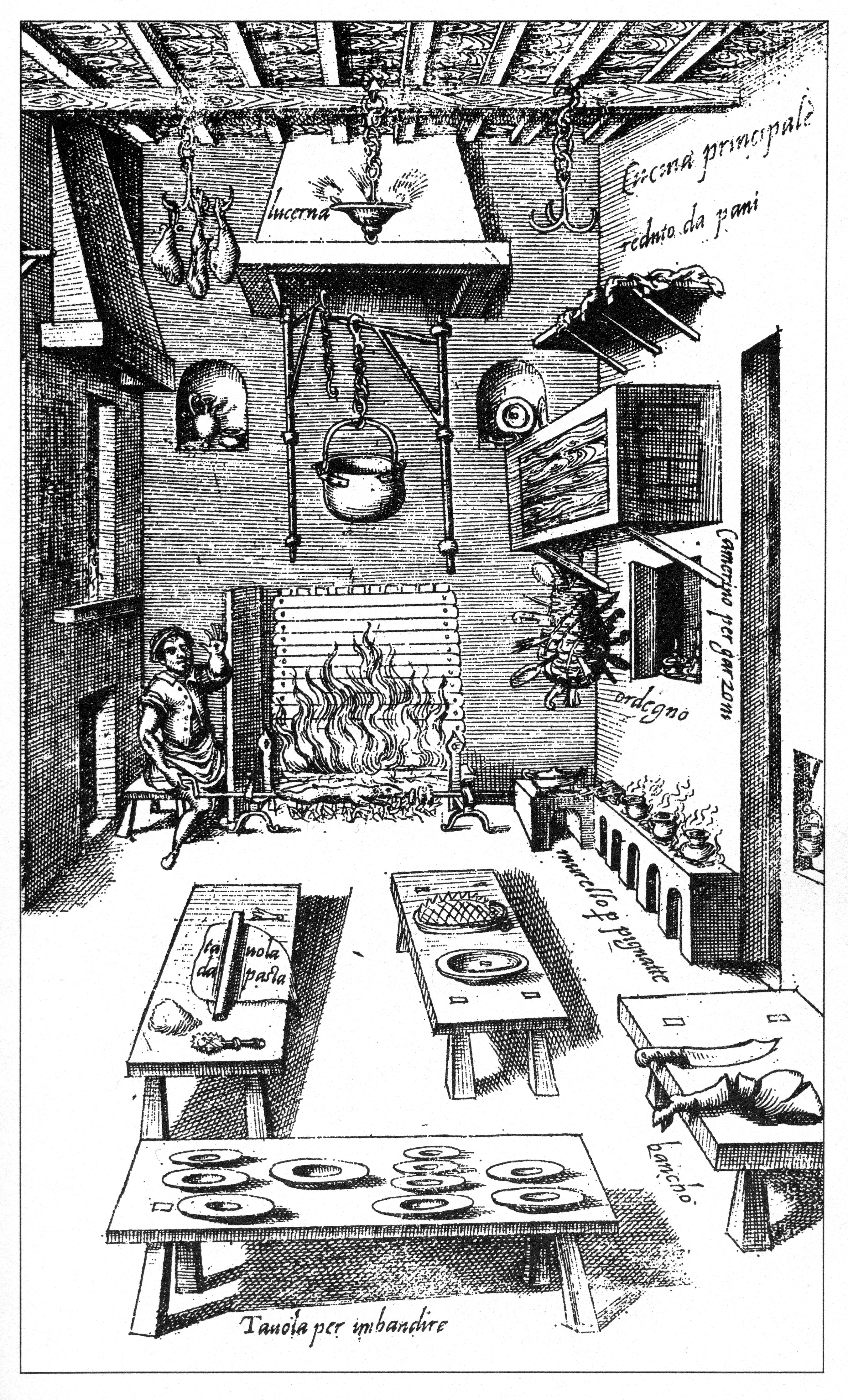 Kitchen scene from Bartolomeo Scappi's Opera, Venice, 1574?.